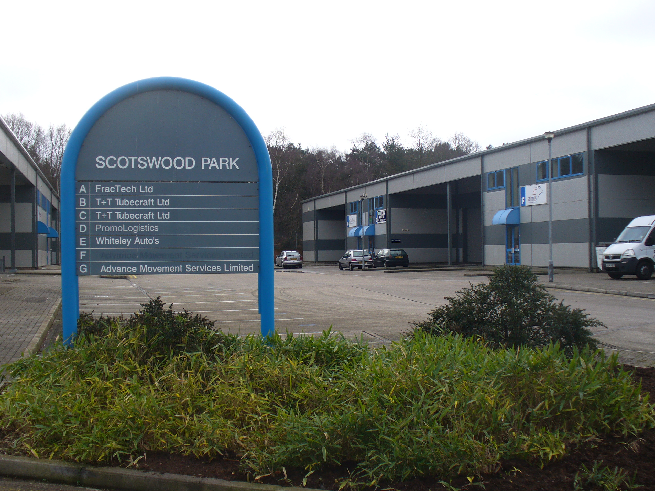 Scotswood Park, Sheerwater